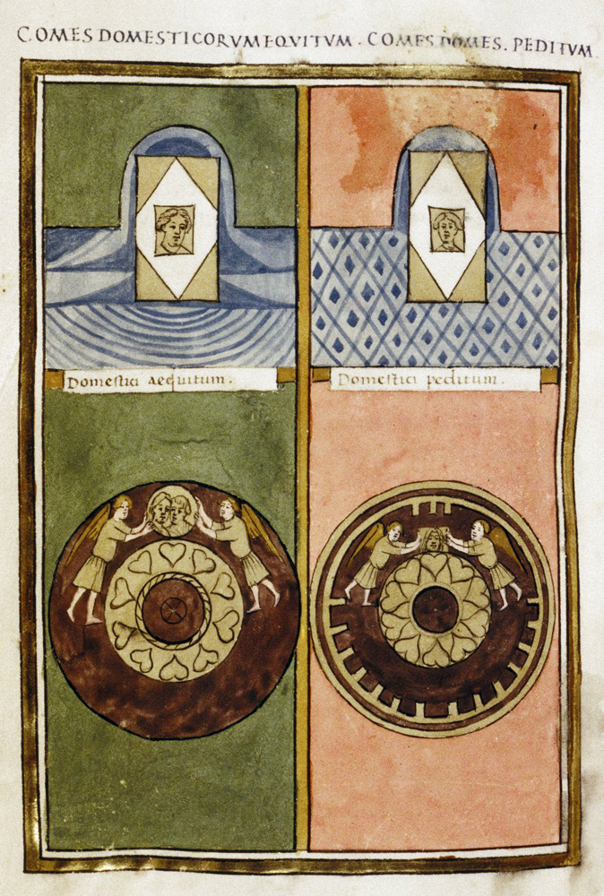 Insignia of the Comes domesticorum equitum and of the Comes domesticorum peditum, according to Notitia dignitatum, folio 101 recto